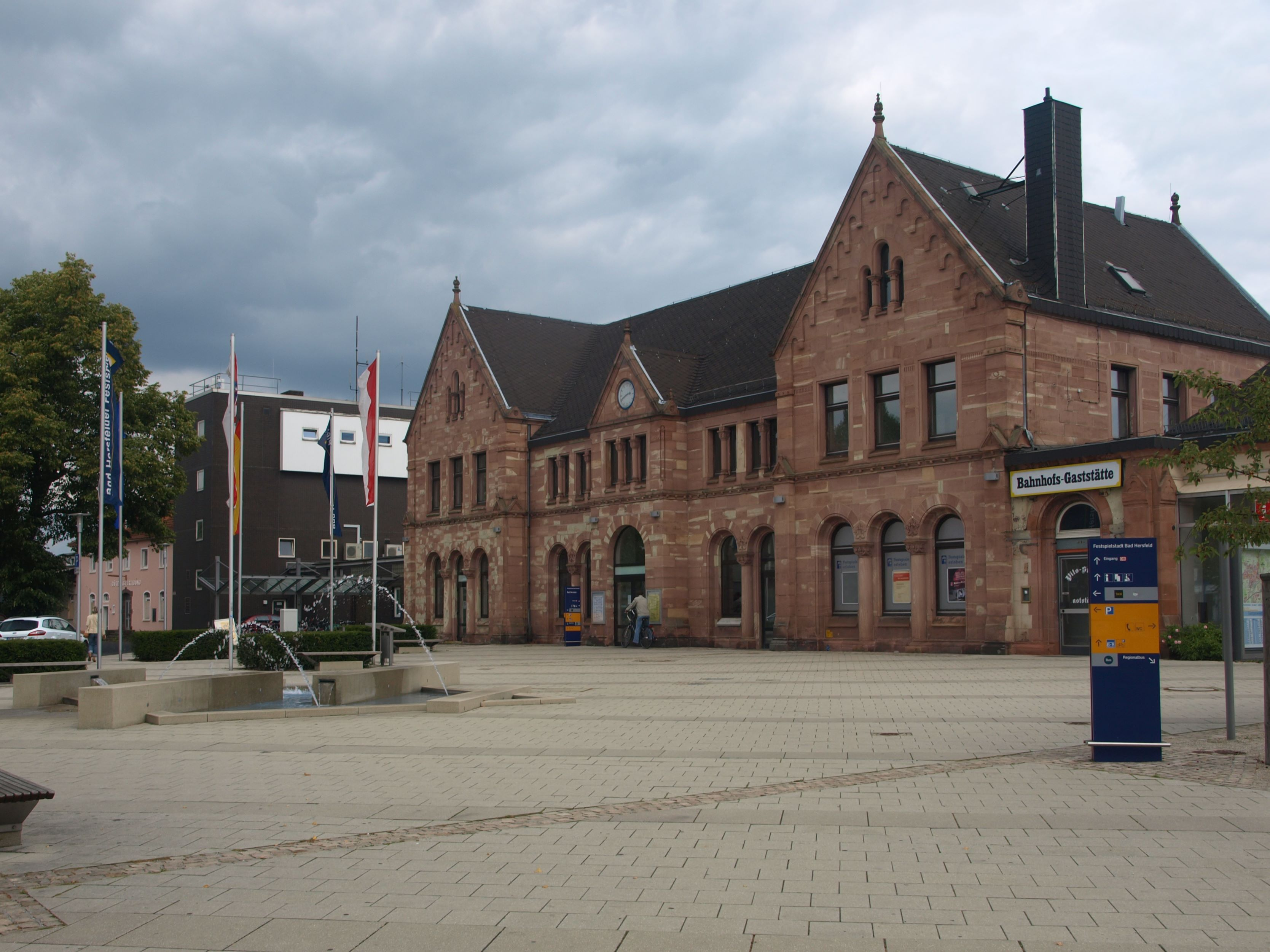 Train station in Bad Hersfeld, built in 1883